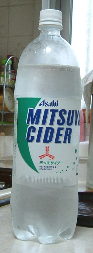 Mitsuya Cider PET bottle, taken by me.